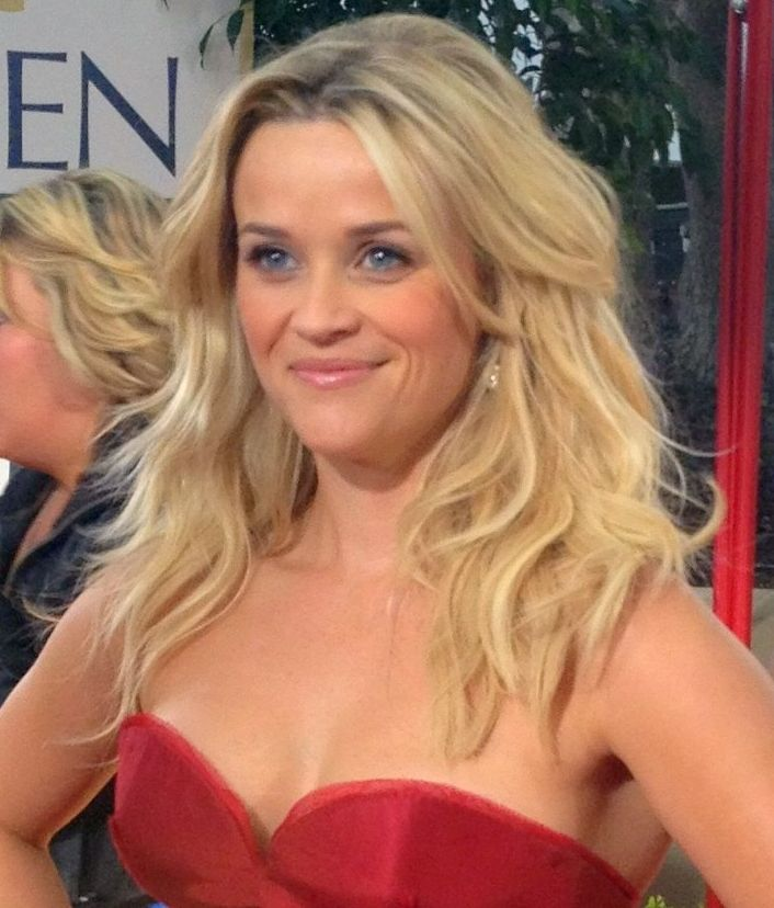 Reese Witherspoon at the 69th Annual Golden Globes Awards 2012.